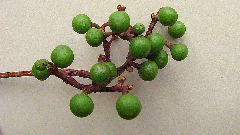 Fruits of Cissus erosa